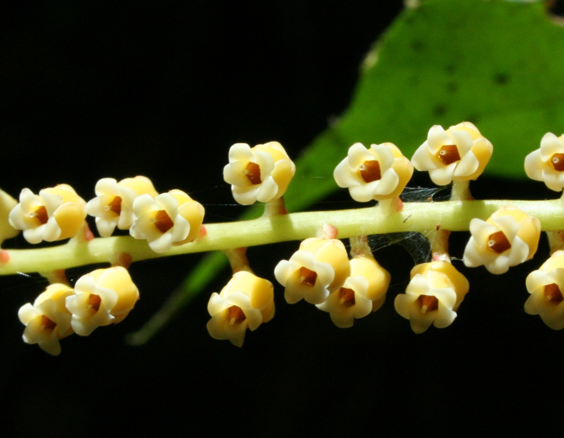 Part of inflorescence of Rinorea melanodonta, Rio Tabaro, Venezuela